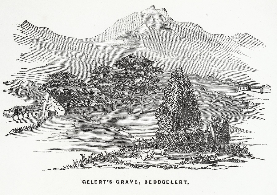 A man and a woman near Gelert's grave, Beddgelert.